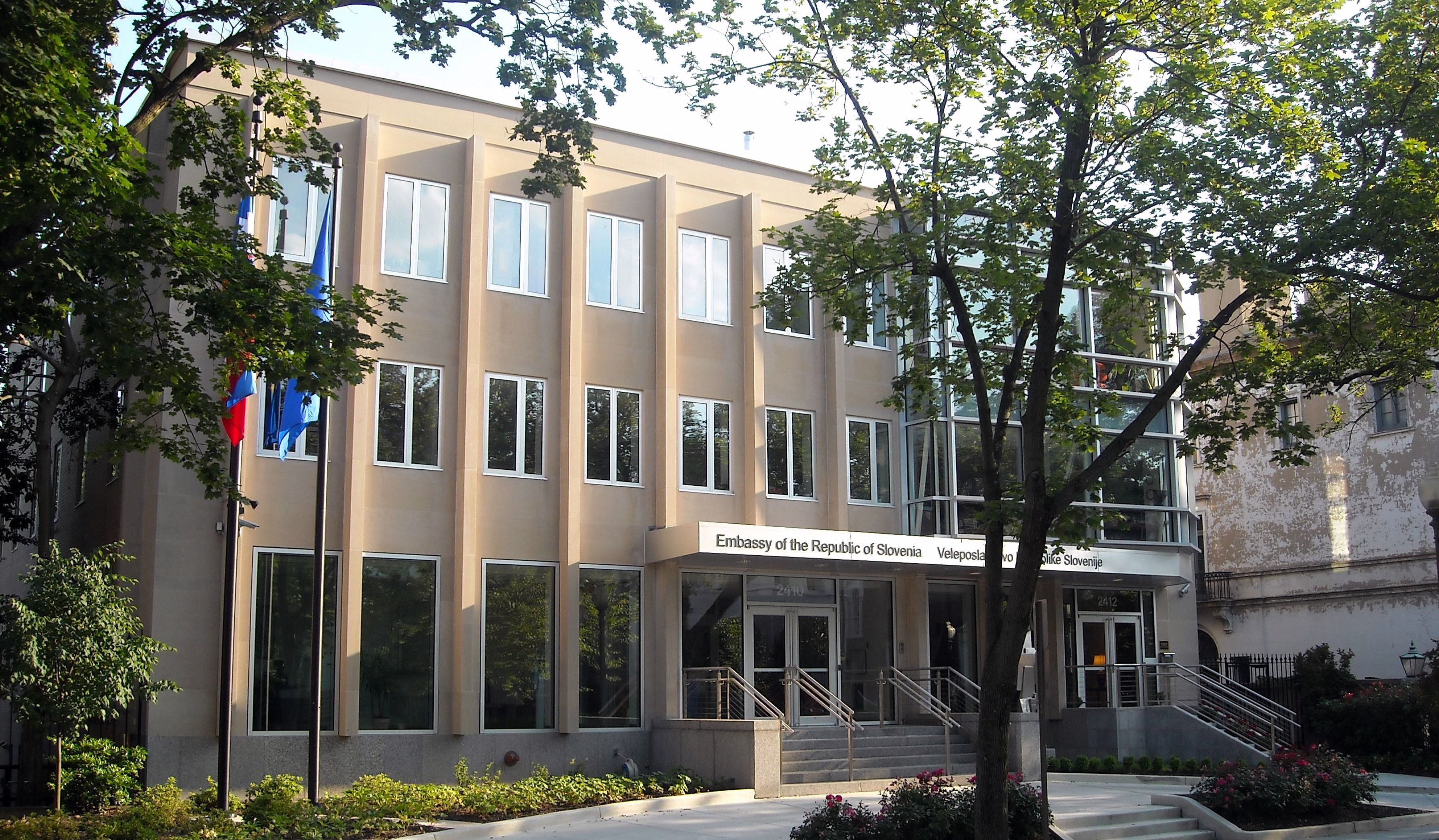 The Embassy of Slovenia at 2410 California Street, NW in the Kalorama neighborhood of Washington, D.C.